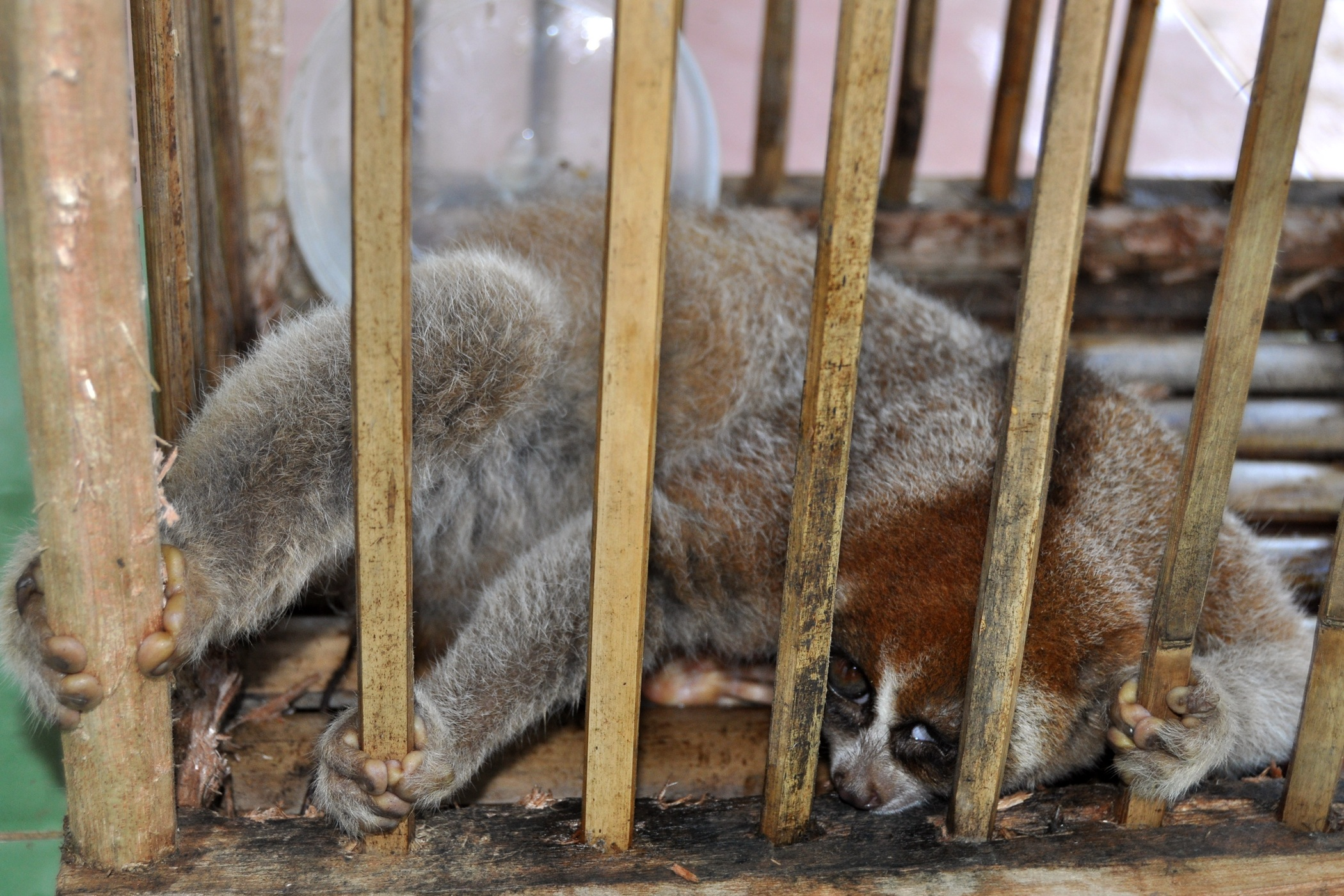 Nycticebus borneanus, female. From Ketapang Regency, West Kalimantan, Indonesia